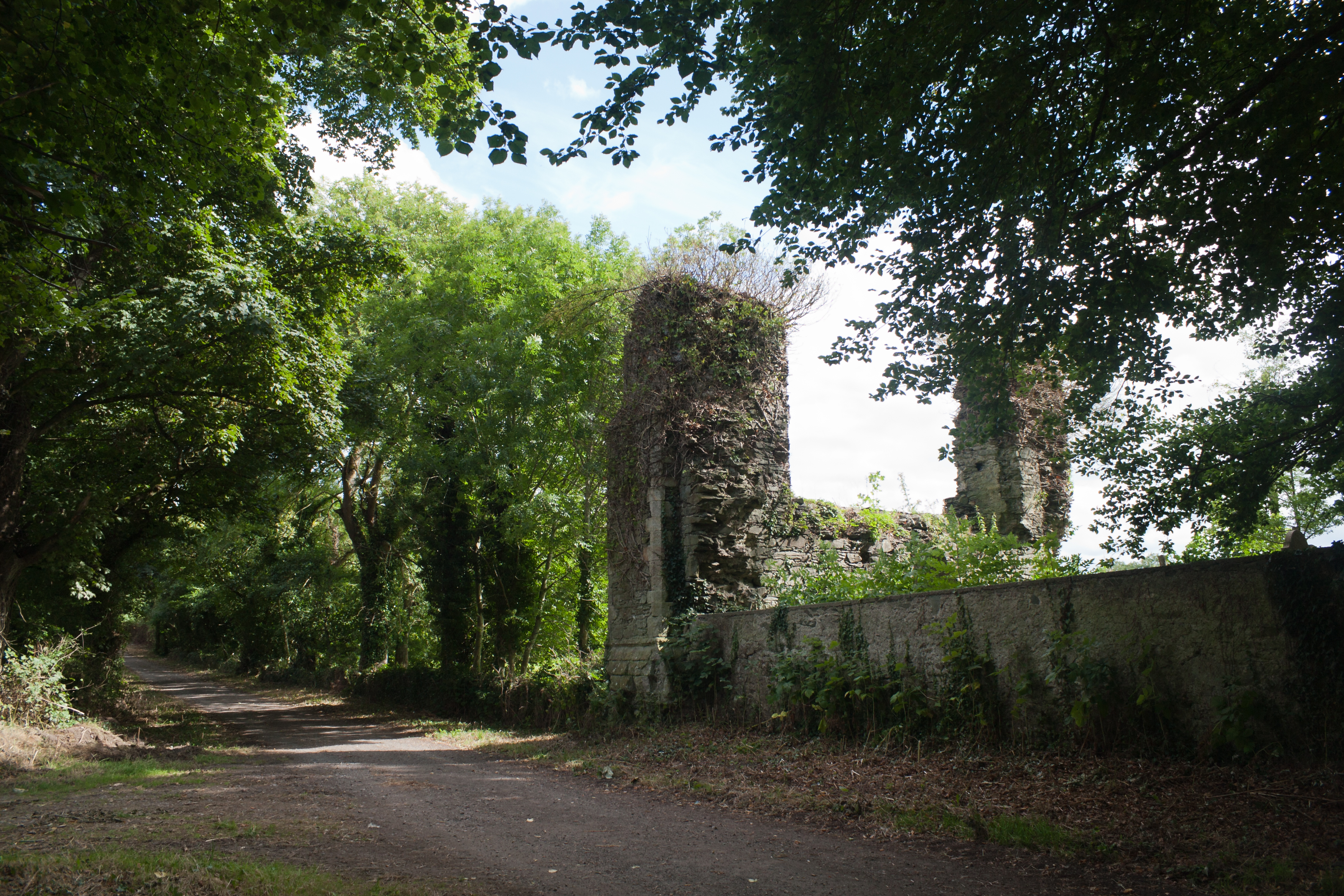 Greatconnell Priory and the road leading to it.